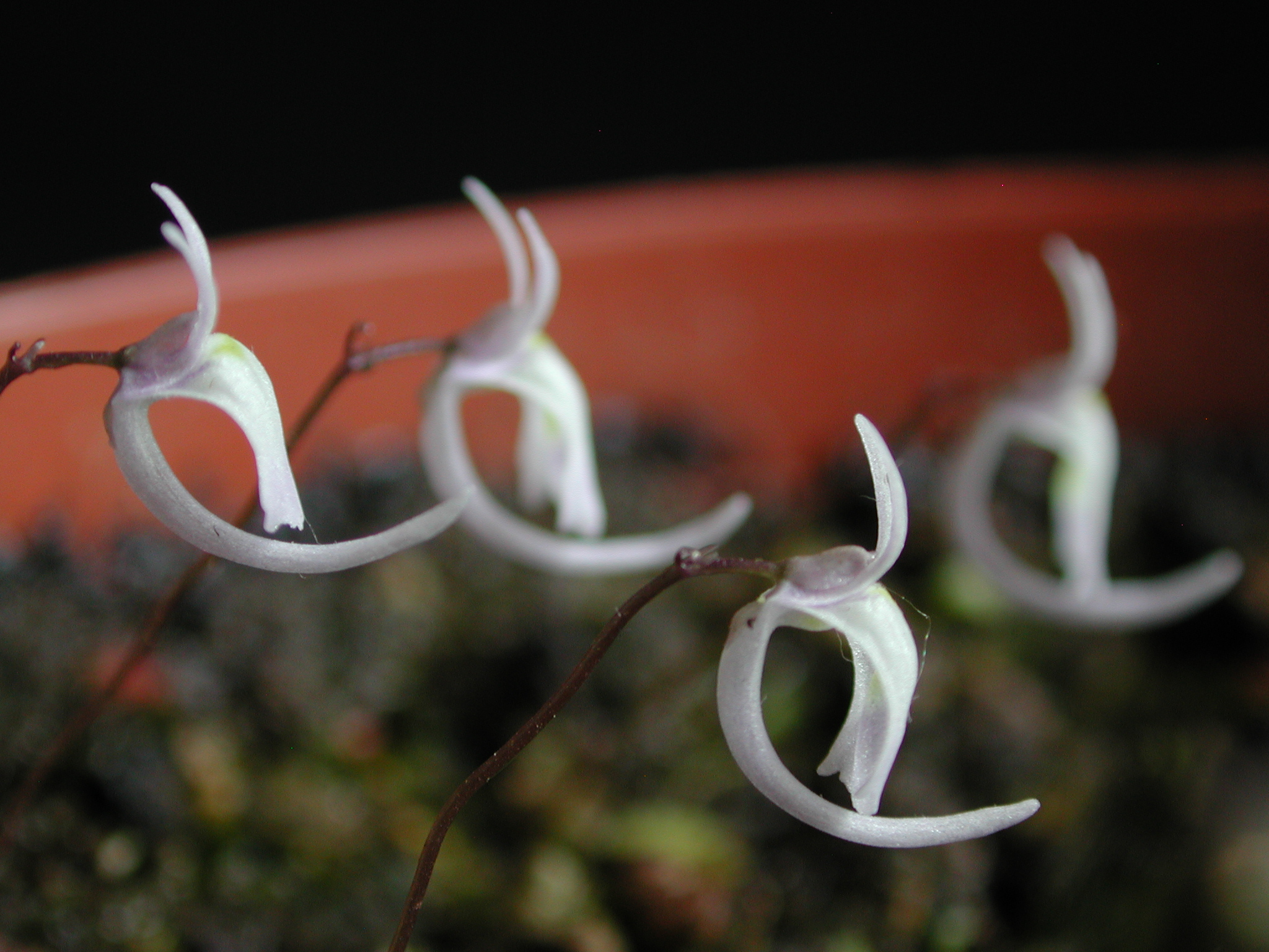 Utricularia sandersonii "narrow" - flower of plant living in culture